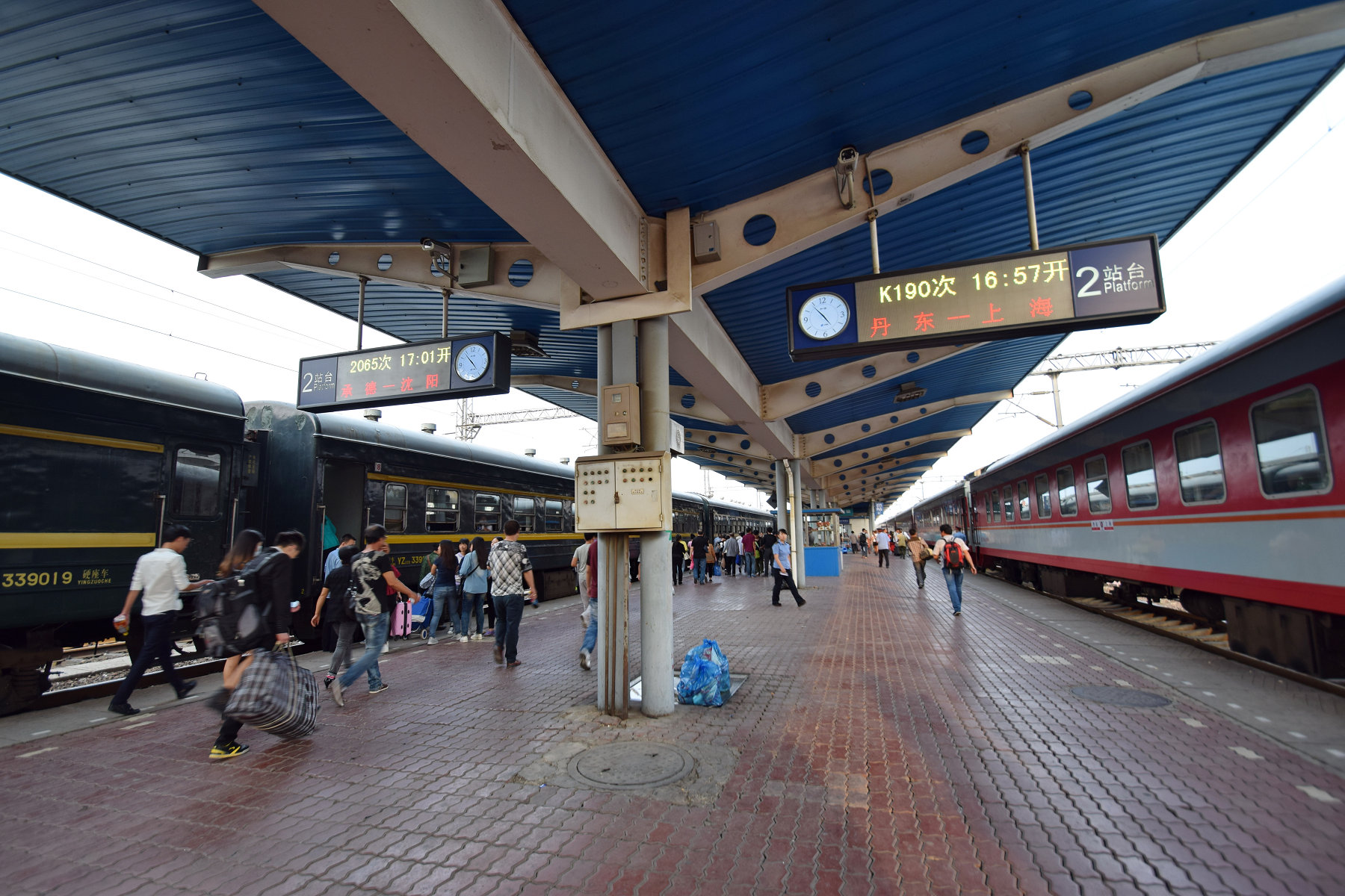 Platform 2, Jinzhou Railway Station